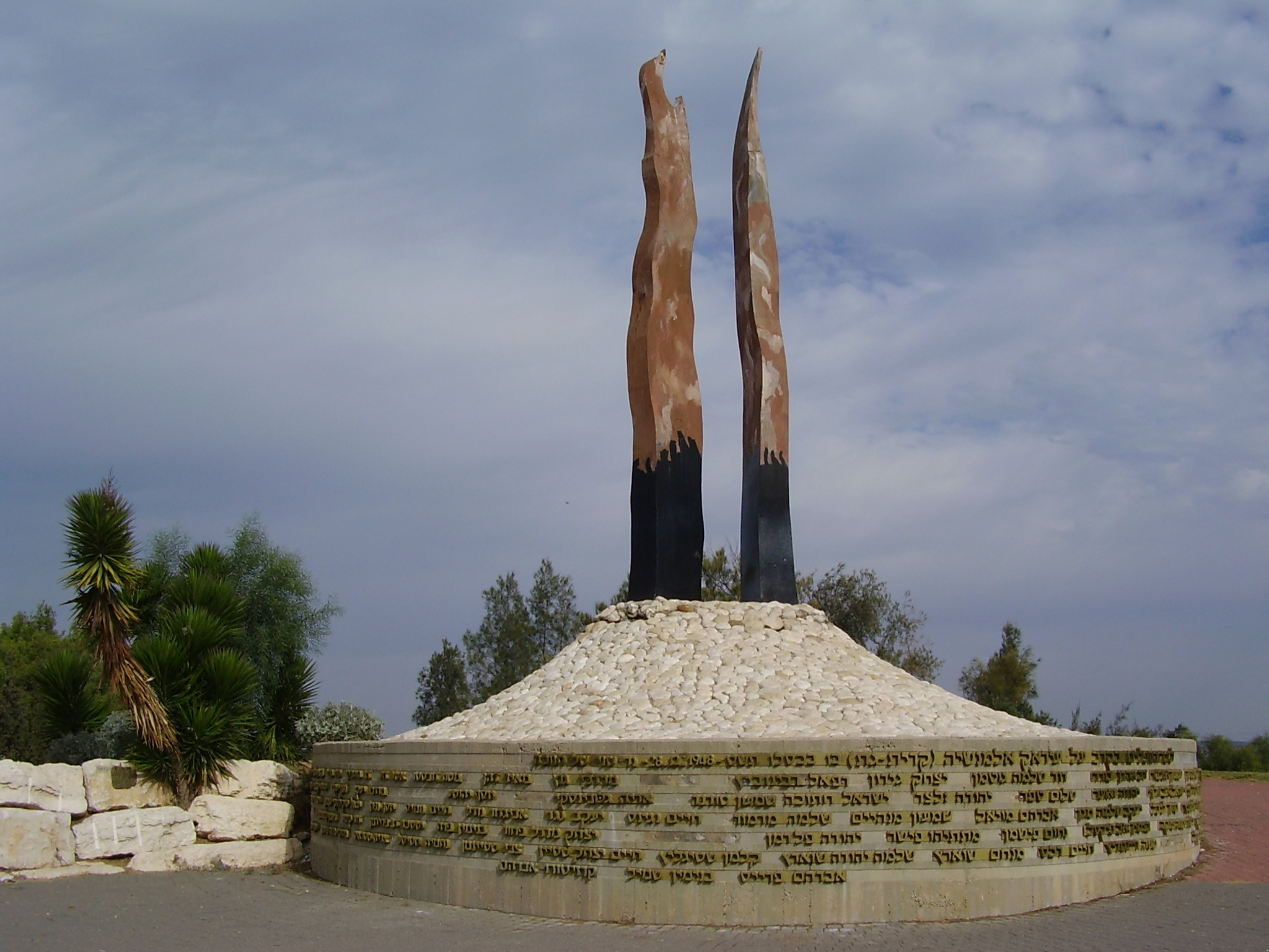 independence war memorial in kiryat gan, israel. אנדרטת פ"ז בקרית גת לזכר הנופלים מהפלוגה הדתית של חטיבת אלכסנדרוני ב"מבצע חיסול"